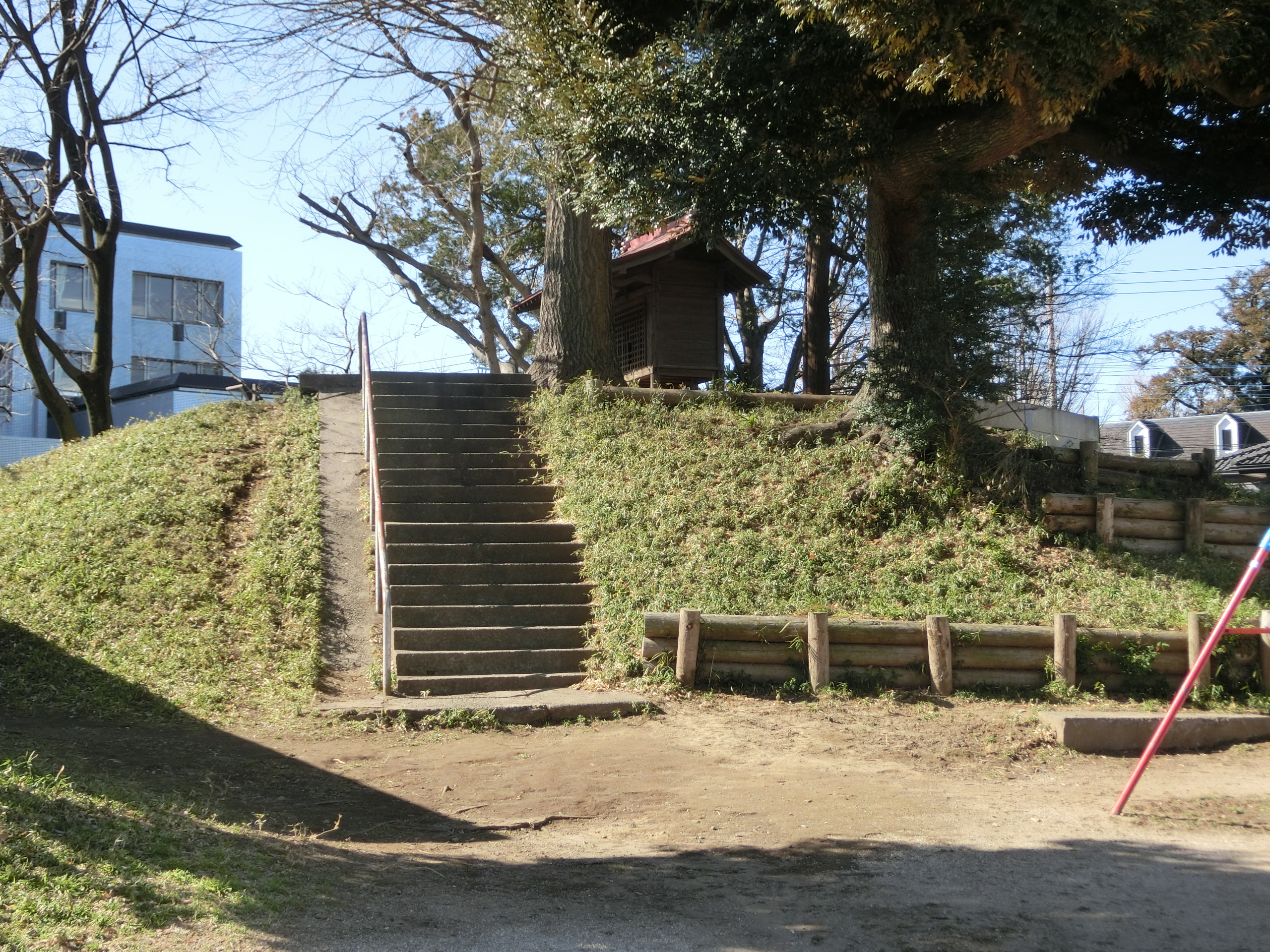 Gojinyama Children's Park